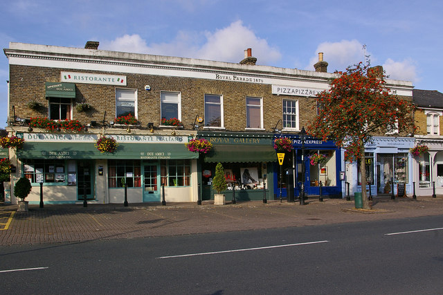 Royal Parade Built in the 1860s, it was named Royal Parade in the 1870s, not because of Queen Victoria but because of its connection with Napoleon III whose family moved into nearby Camden Place in 1870 (hence the 1870 alongside the words Royal Parade along the top of the building here). The family moved there following Napoleon's defeat and capture in the Battle of Sedan and subsequent removal as Emperor, with the deposed Emperor himself moving there in exile in 1871.